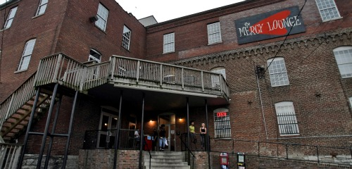 Main Entrance for Mercy Lounge, The Cannery Ballroom and The High Watt